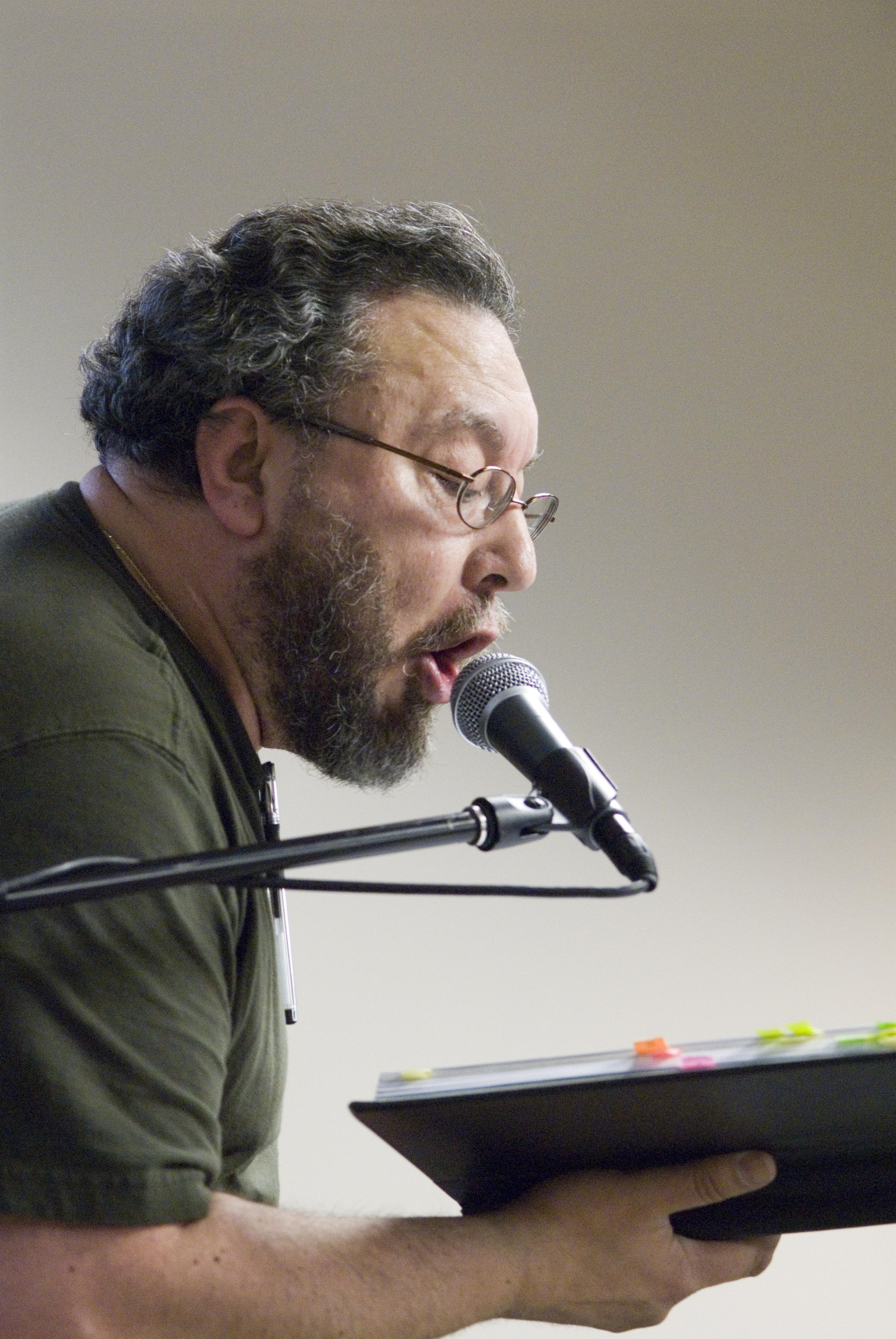 Taken by me (Don LaVange), I keep this image online under creative commons license at